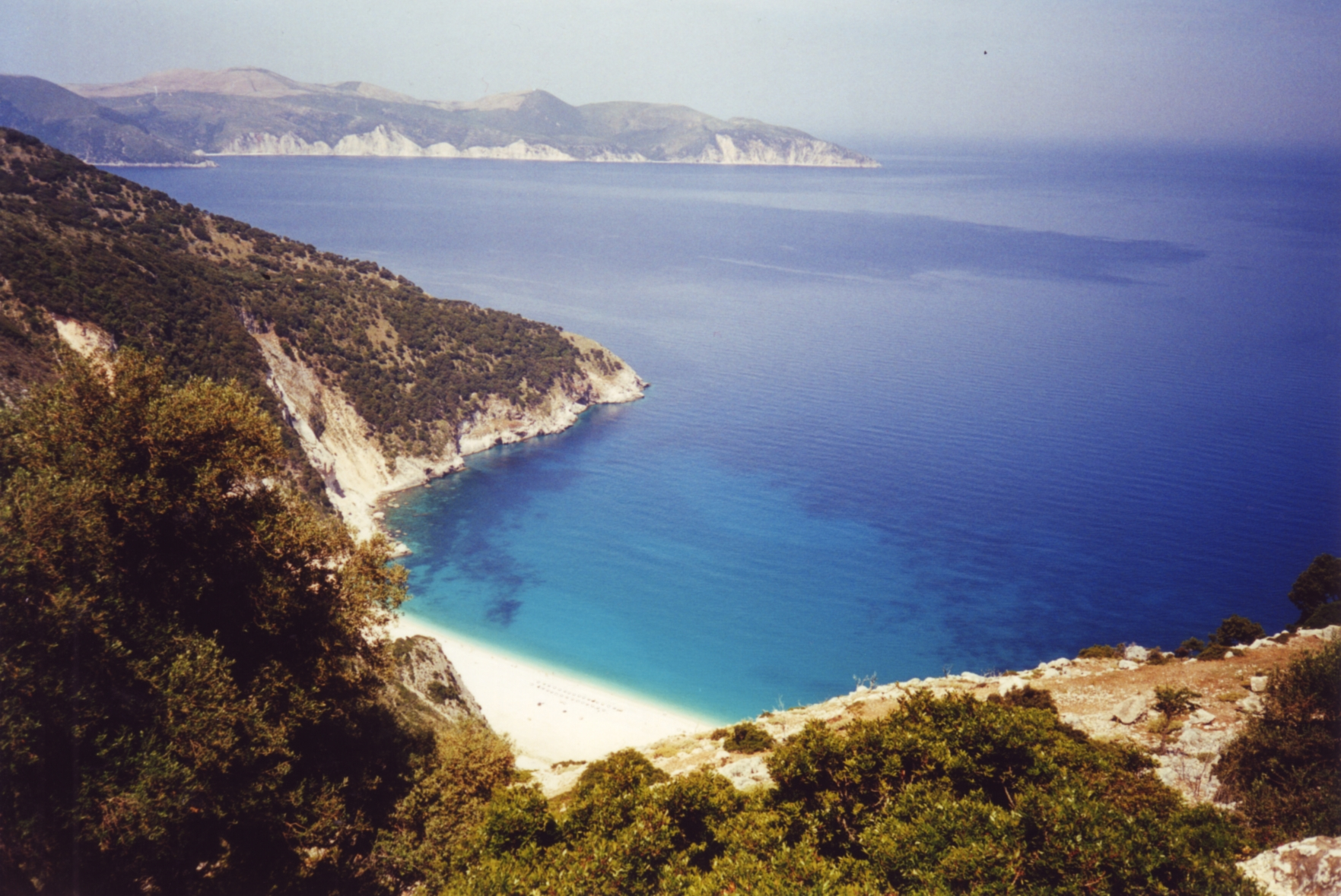 The Myrtos beach in Pylaros/Kefalonia